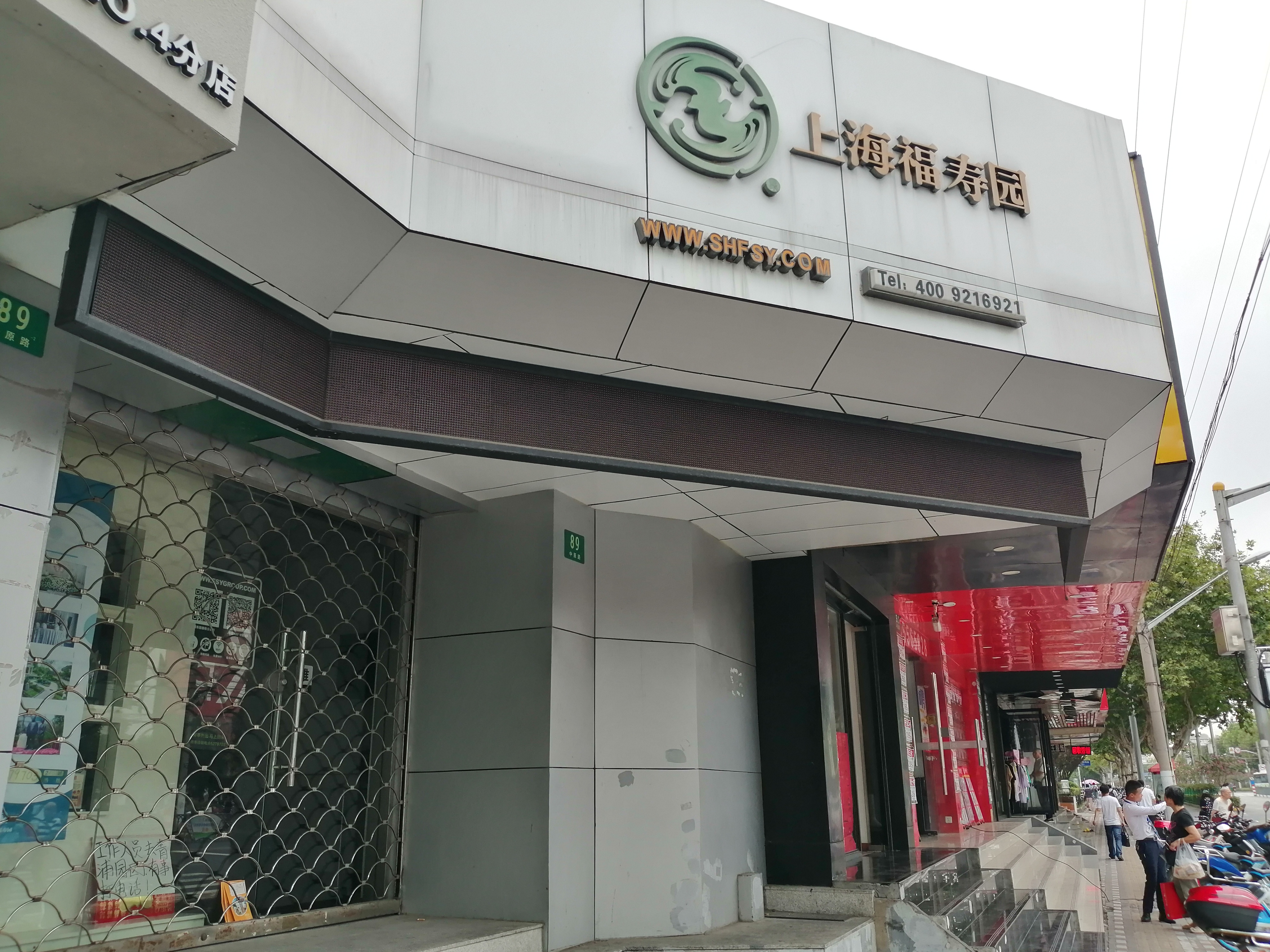 Fushouyuan Service Station at Zhongyuan Road, Yangpu District, Shanghai. 中文（中国大陆）: 上海市杨浦区的福寿园服务处